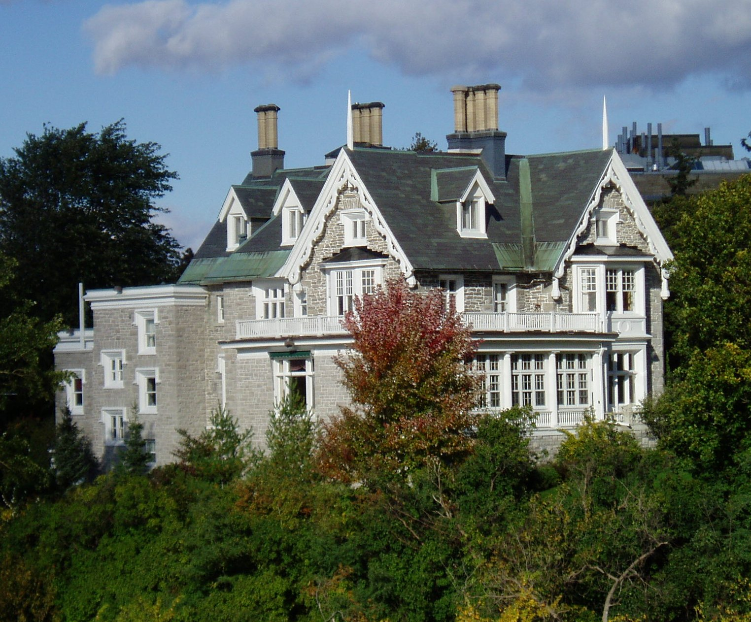 Earnscliffe in Ottawa, taken by SimonP. Earnscliffe is a Victorian manor in Ottawa, Ontario. It is currently home of the British High Commissioner to Canada, and it was previously home to Canada's first Prime Minister, Sir John A. Macdonald.